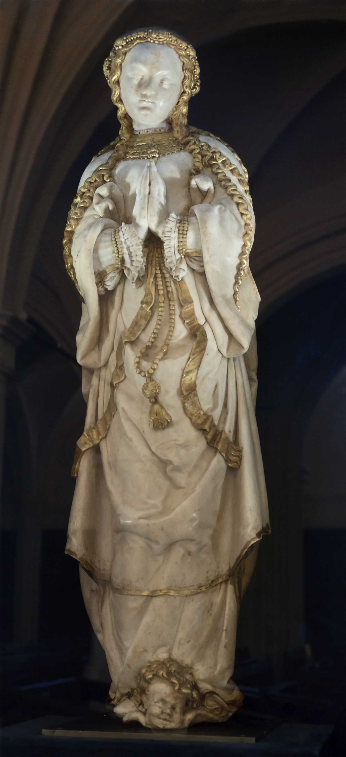 Virgin Mary of the Assumption, 16th-century alabaster statue, in Saint Ayoul church, Provins, Seine-et-Marne, France.